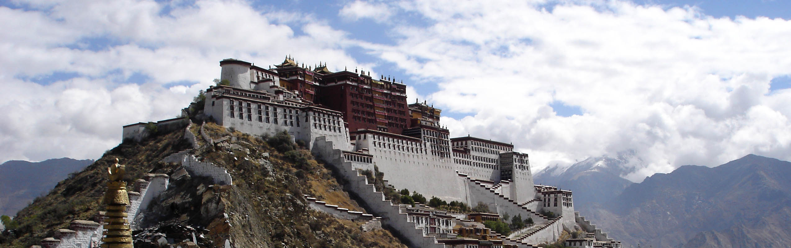 View of the Potala palace from the foothill of Chagpo Ri (Lhasa, Tibet Autonomous Region, People's Republic of China).